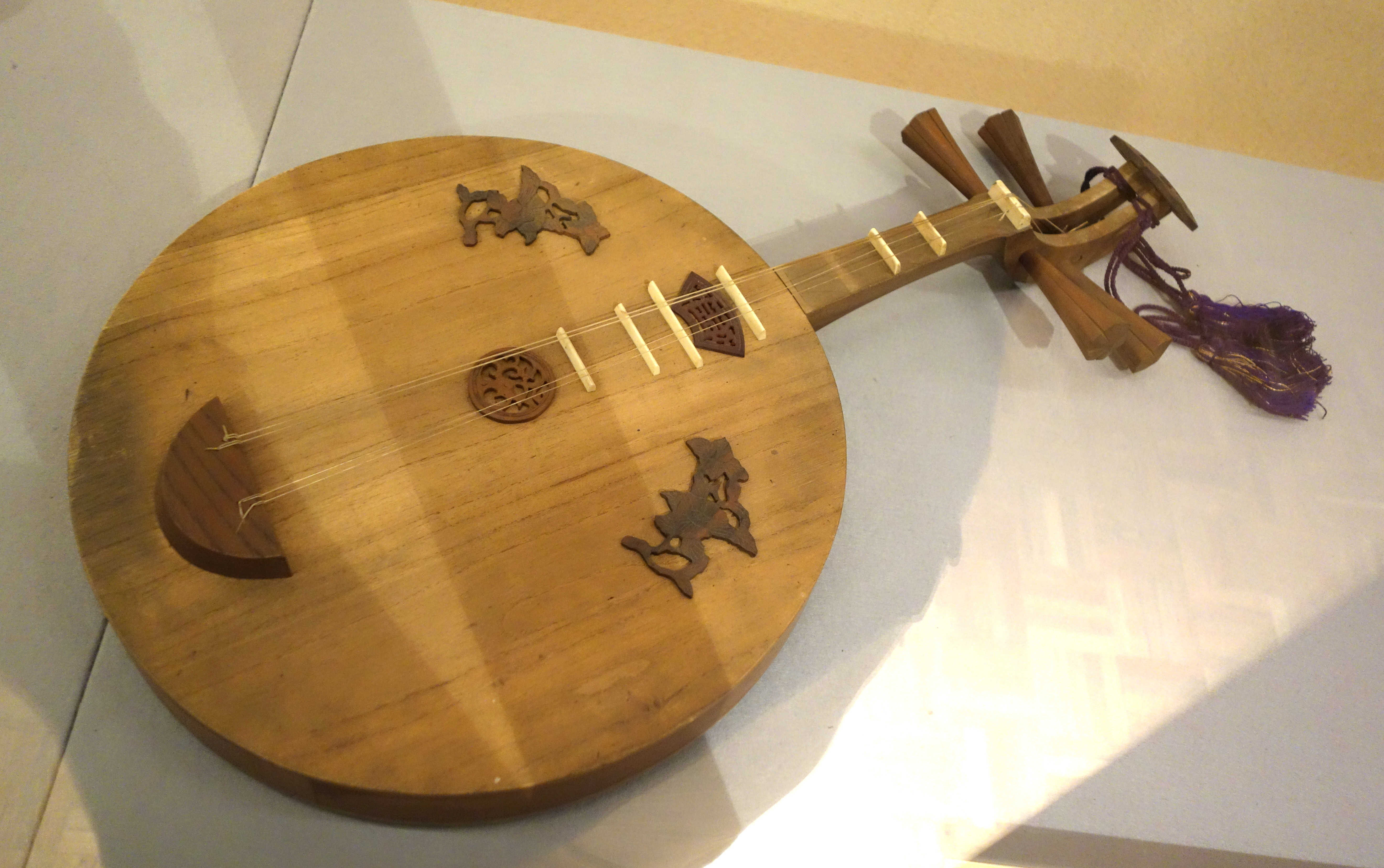 Exhibit in the Sanada Treasure Museum, 4-1 Matsushiromachi, Matsushiro, Nagano, Japan. This artwork is old enough so that it is in the public domain.